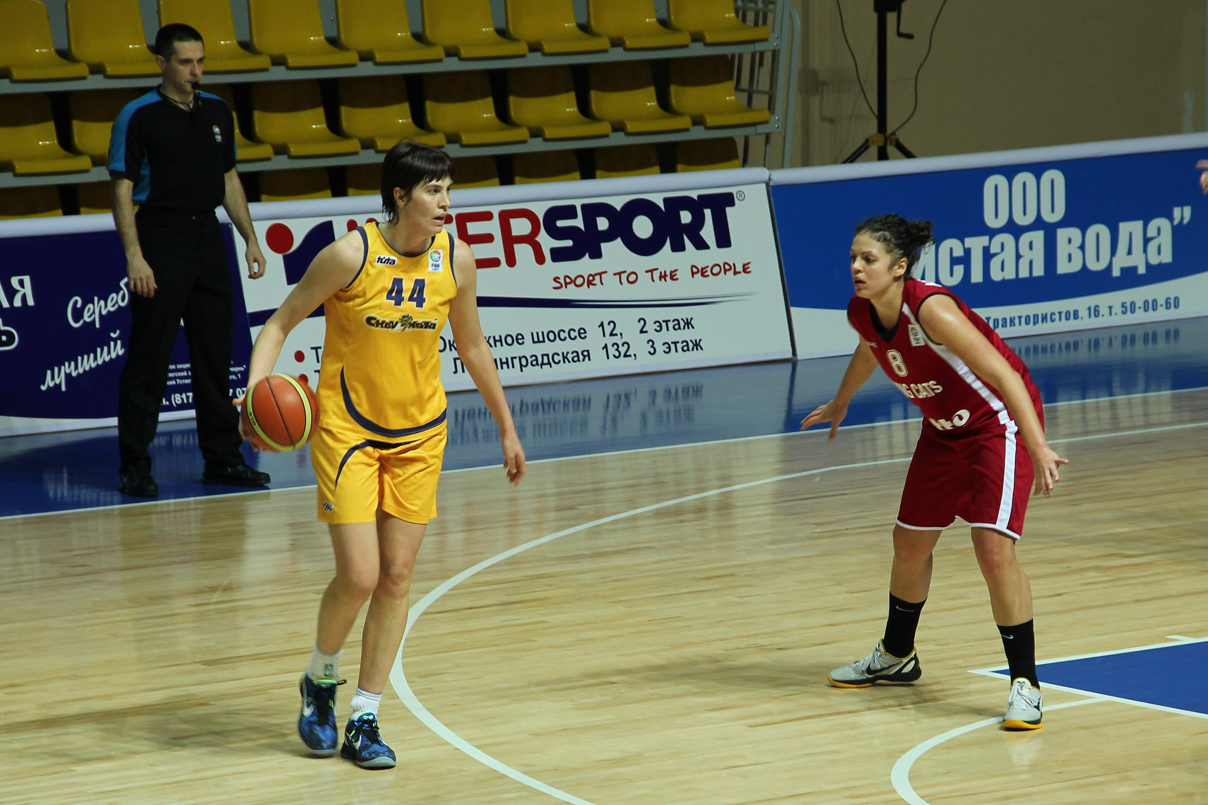 Russia, Vologda, Yelena Baranova (44) and Sofie Hendrickh (8) in game «Vologda-Chevakata» vs «Lotto Young Cats»